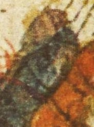 Stauracius.